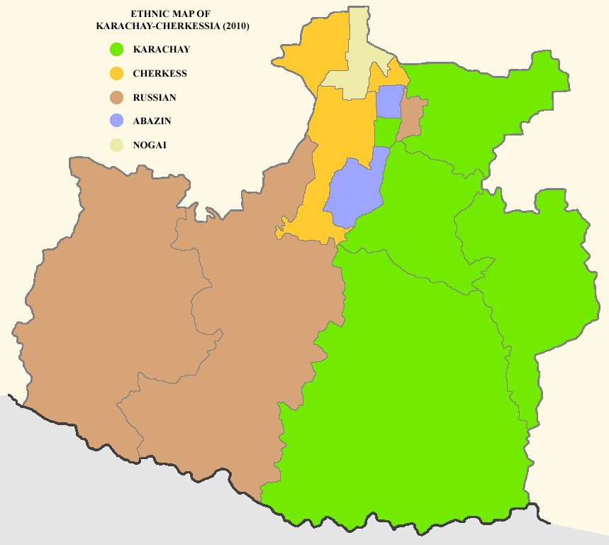 Ethnic map of Karachay-Cherkessia (2010) Sources: 1. 2. Russian census, 2010